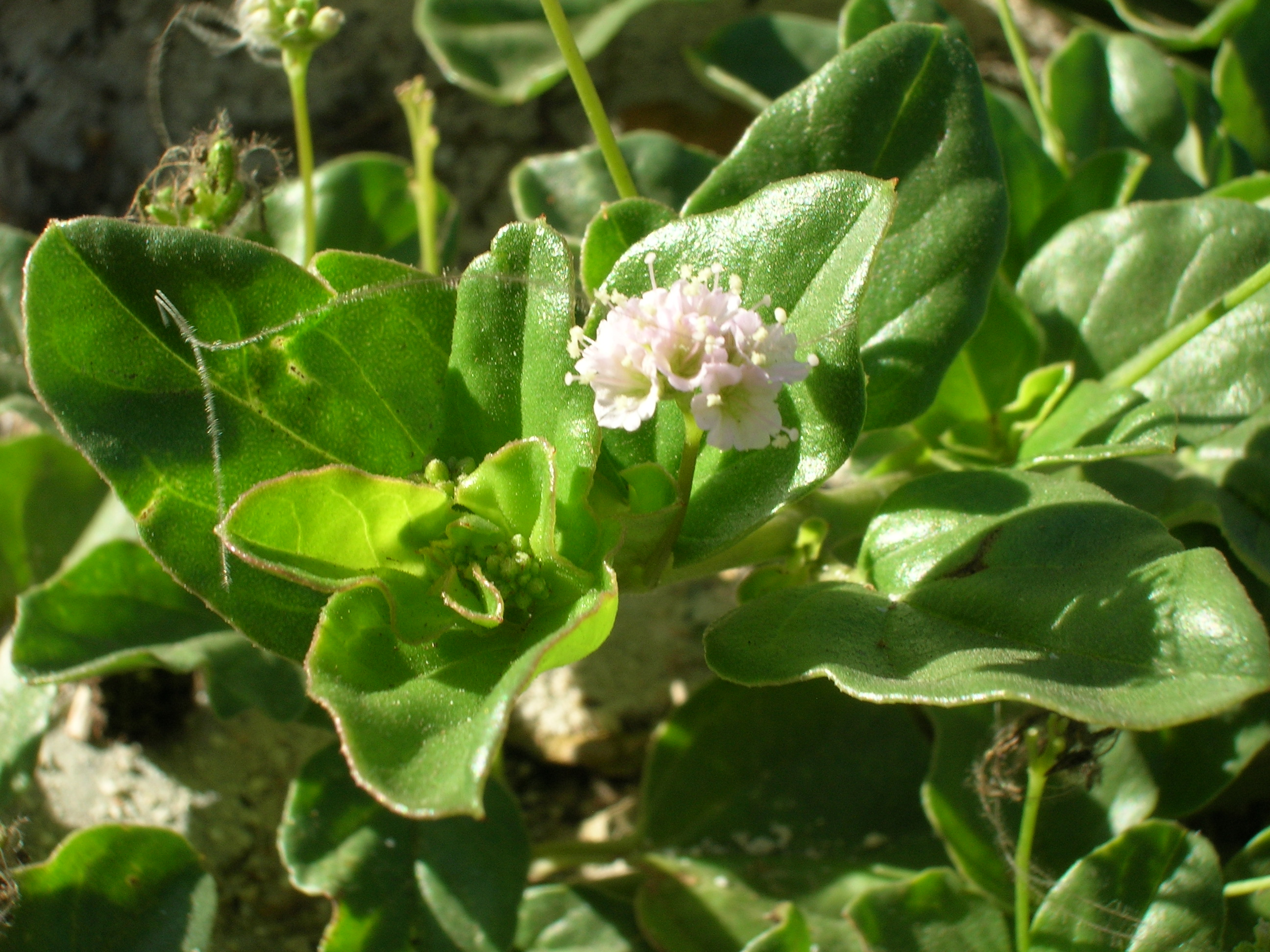 Boerhavia repens (flowers and leaf). Location: Midway Atoll, FWS office Sand Island